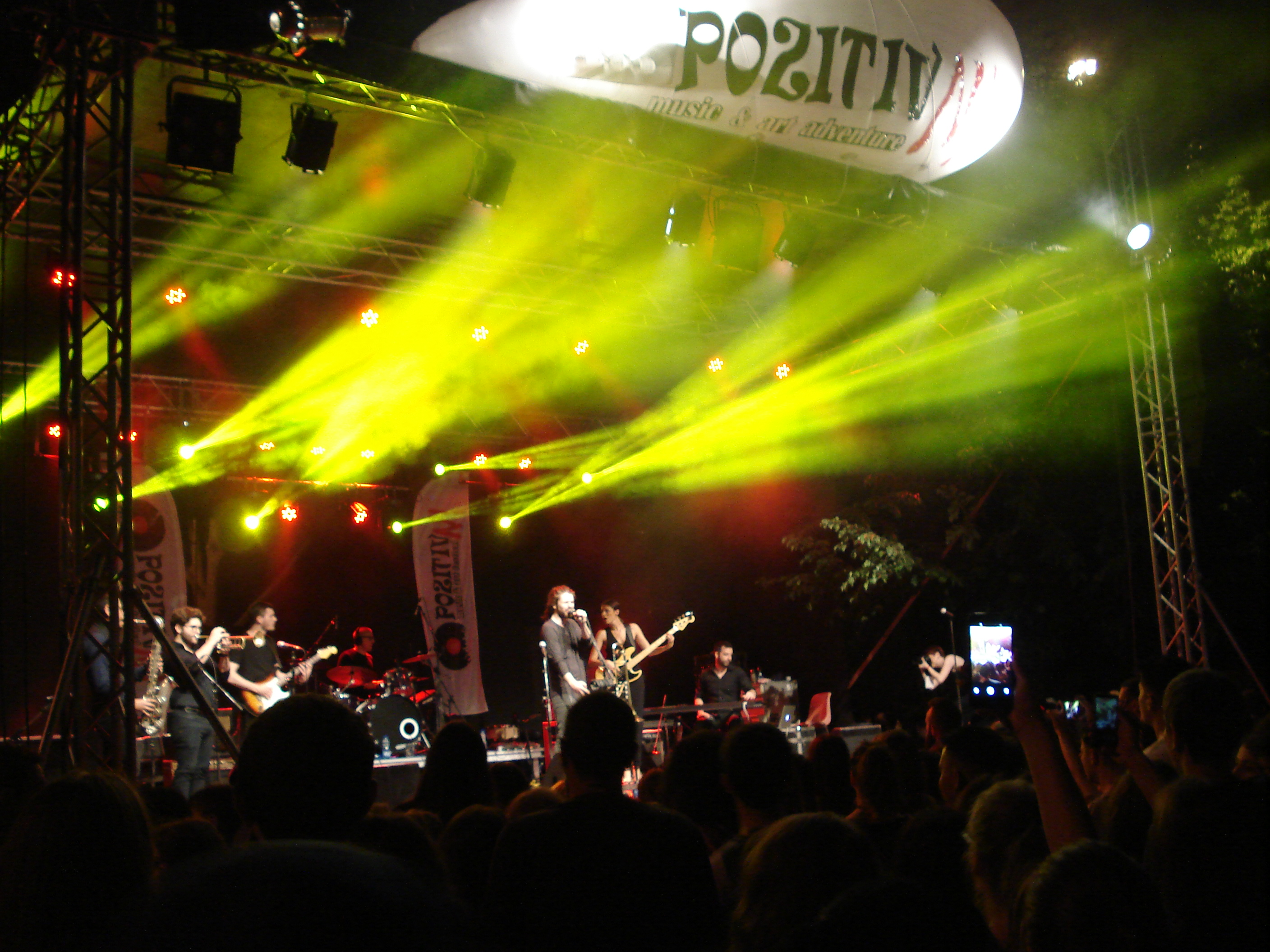 Irie FM, Pozitivni festival NIs 2018. 03